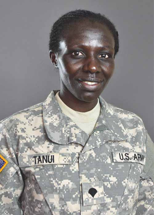 SPC TANUI